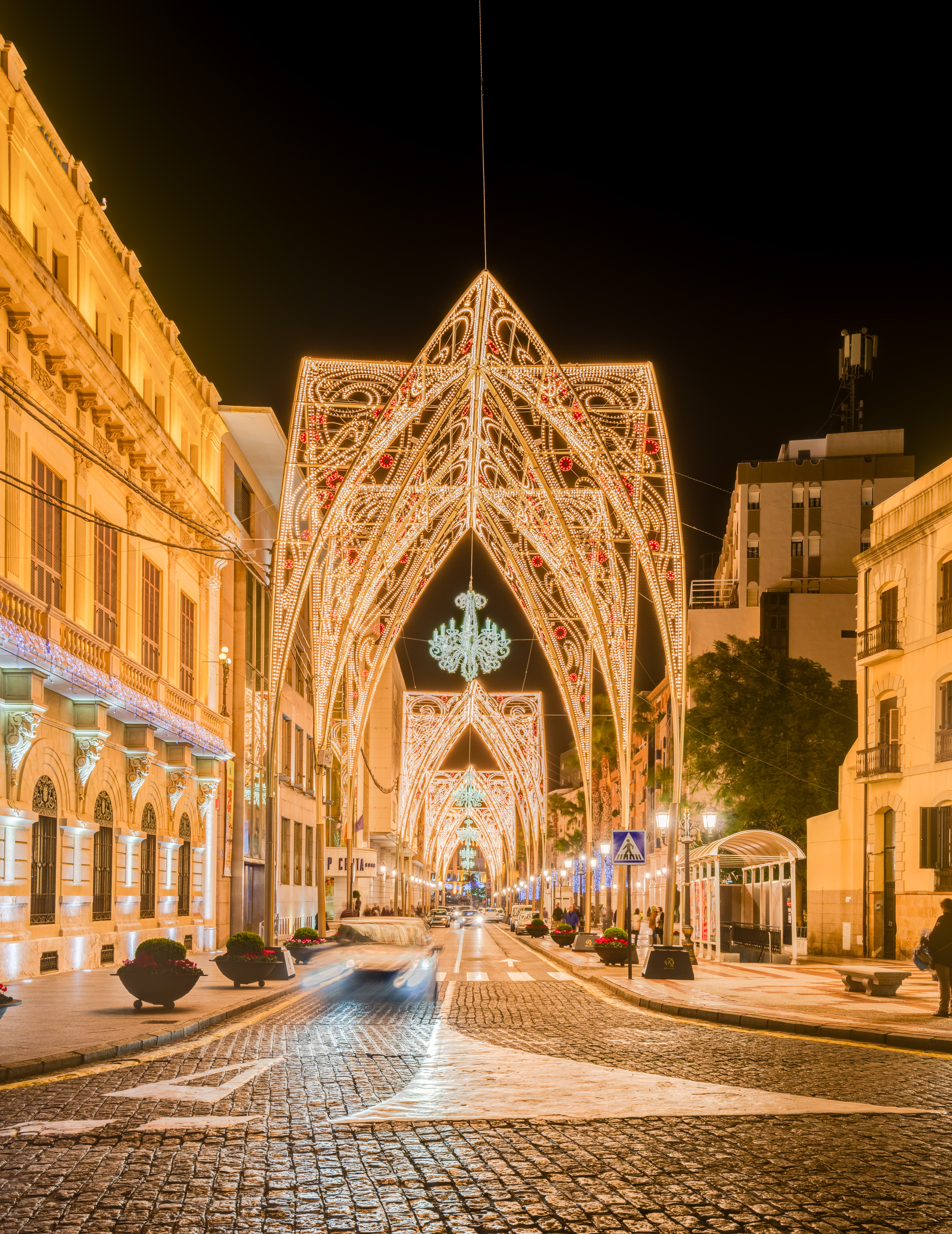 Alcalde Sánchez Prados Avenue, Ceuta, Spain